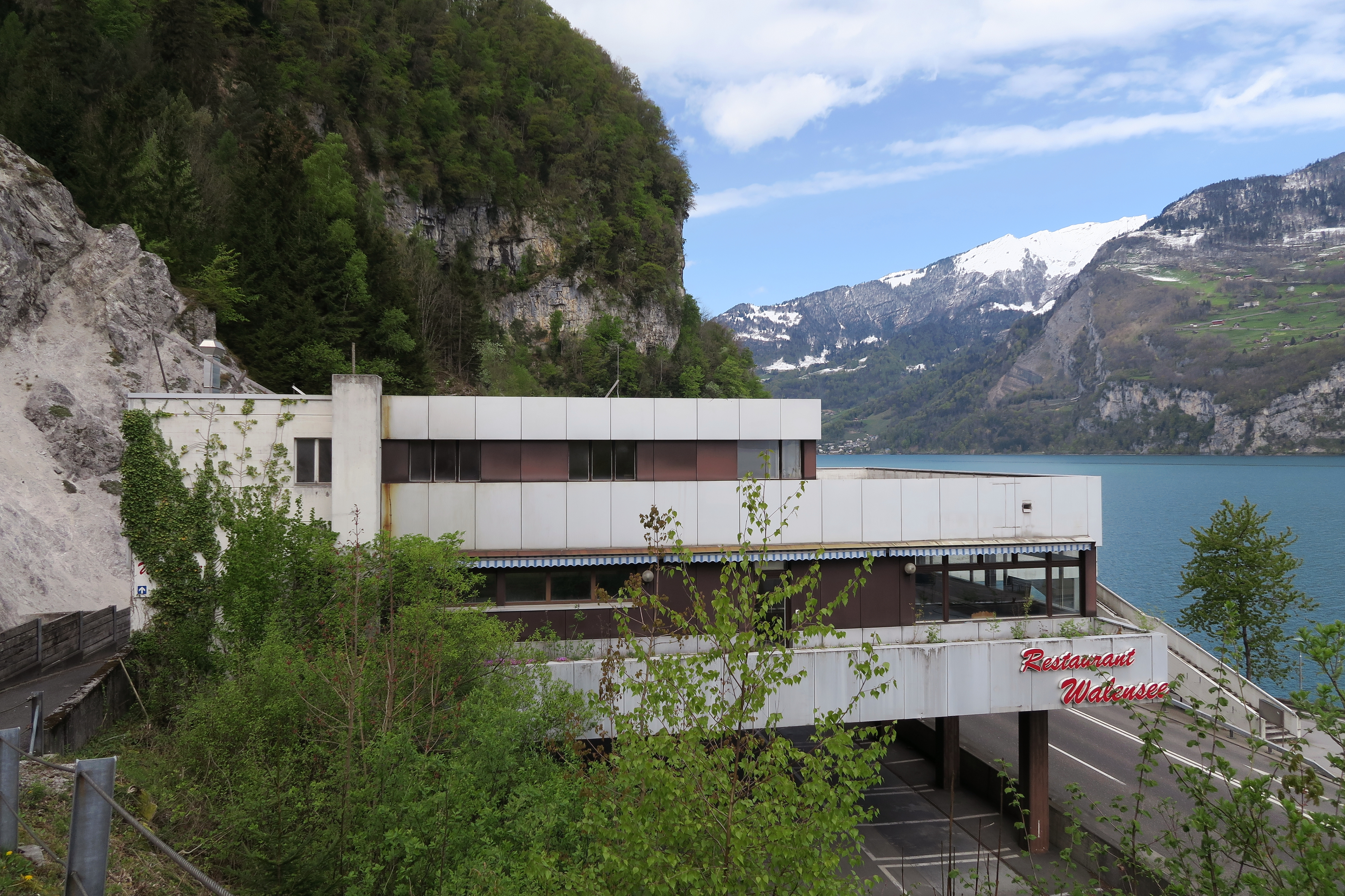 With the new Walensee road which was opened in 1964, also this restaurant was put into operation. At that time there was two-way traffic and a driveway from both directions. Since 1986, the road was converted into the northern lane of the new motorway, and the rest area was only accessible from the east to the west. In autumn 2004, it was closed. Switzerland, April 28, 2016. (2/8)